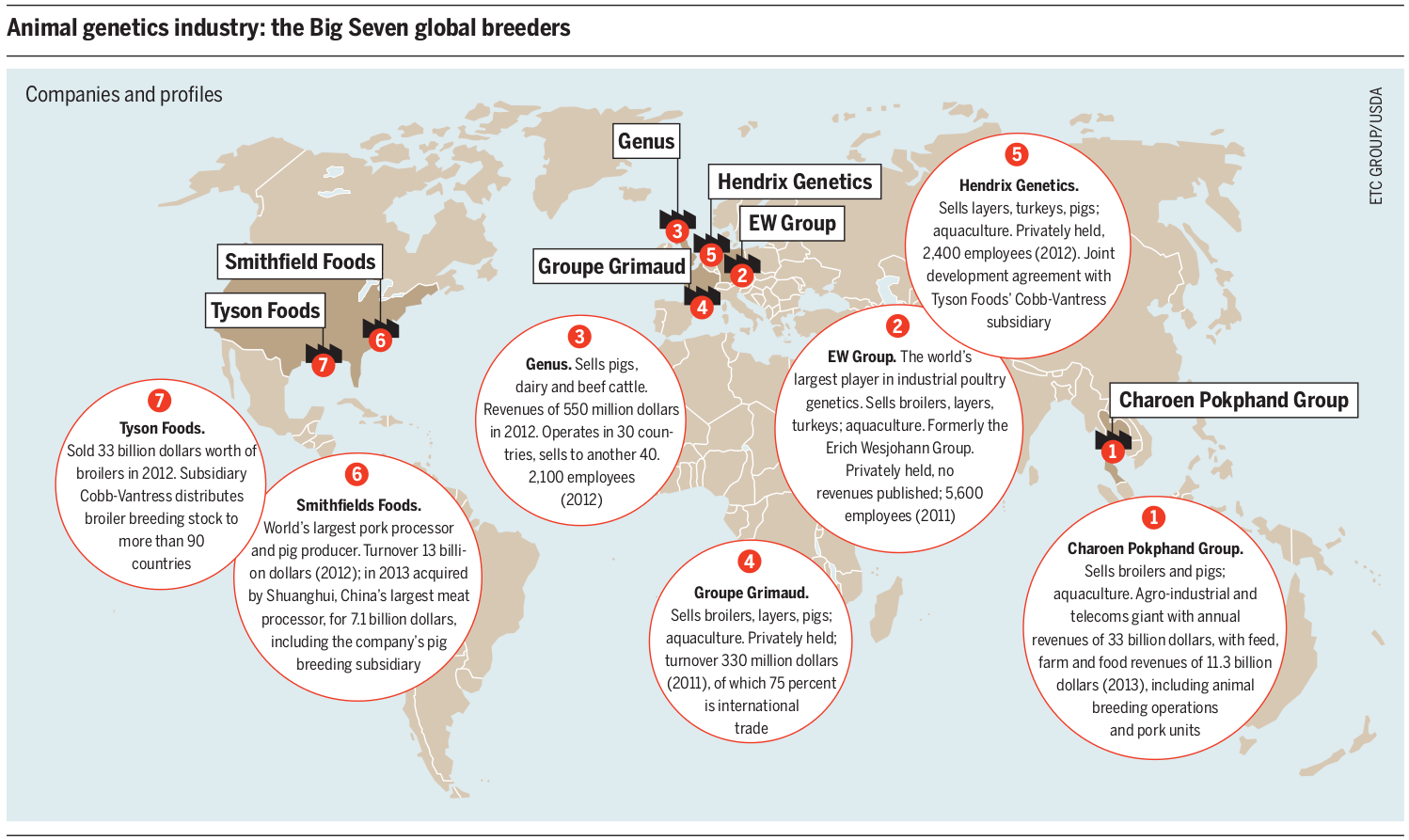 Meat Atlas - Animal genetics industry: the Big Seven global breeders